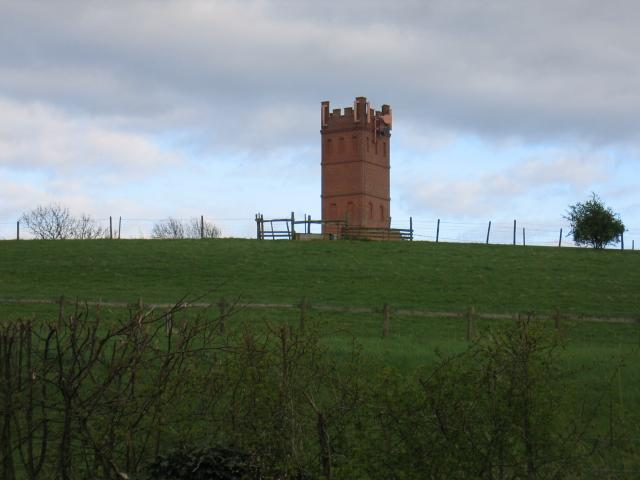 Inkberrow tower. An interesting tower on the hilltop near Inberrow. Pity about the cellular radio antennae, but at least they've coloured them to blend in a little! The tower was built in 1996 in order to meet local planning conditions and is neither an elaborate water tower nor a folly but is actually a disguised mobile 'phone base station for the Orange network!